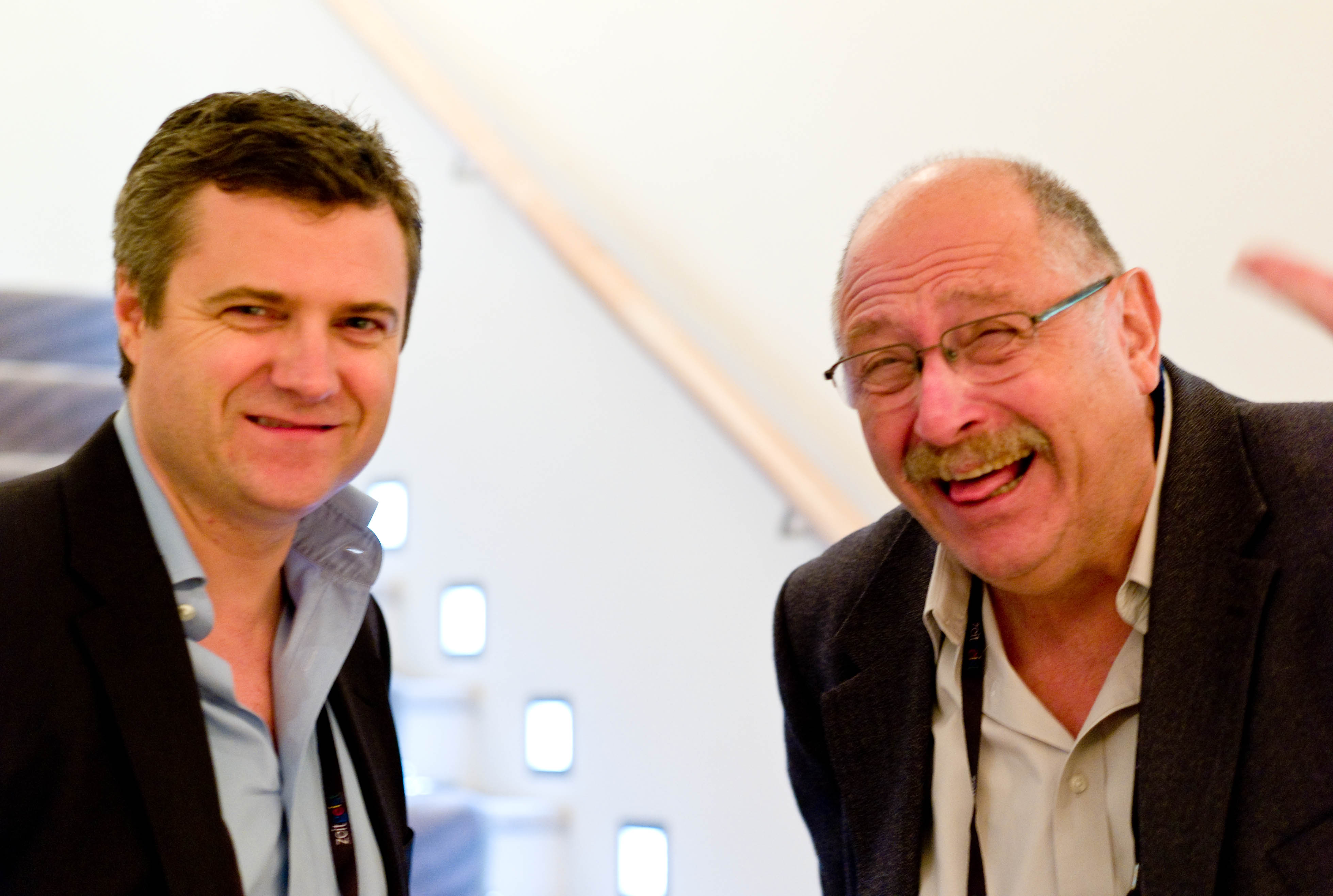 Mark Read and Yossi Vardi